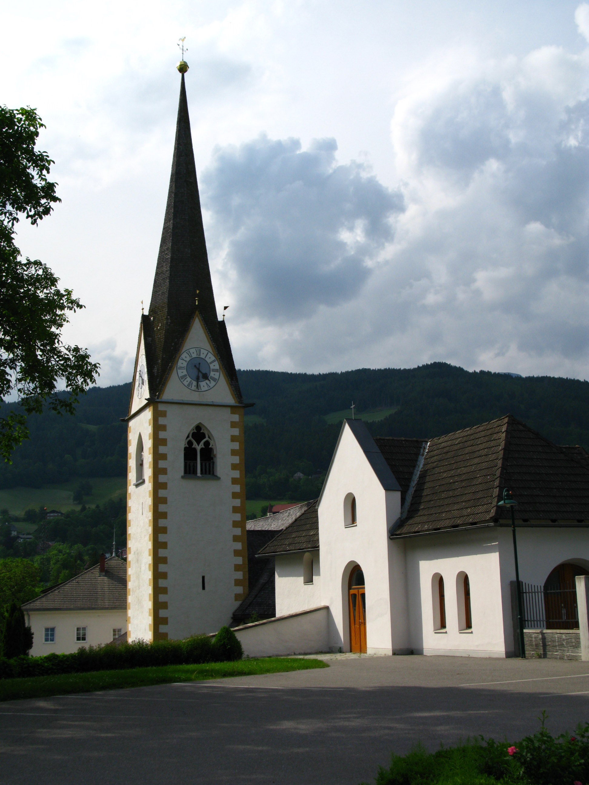 Village Lieseregg near Lake Millstatt (Millstätter See) community of Seeboden / Spittal an der Drau / Carinthia / Austria / EU. On the left side the rectory is located, in the middle of the bell tower and right the old mortuary chapel. In the background the rising Gemeineck mountain called Hirschberg or Hühnersberg.